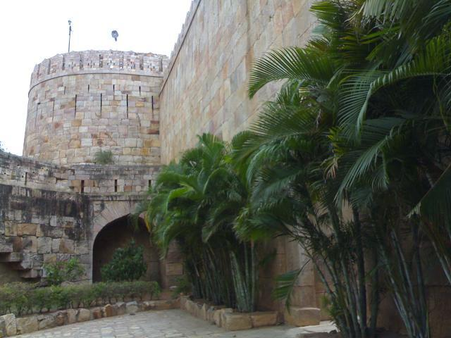 Savadatti Fort Author and Source : Manjunath Doddamani, Gajendragad, Karnataka (North), India